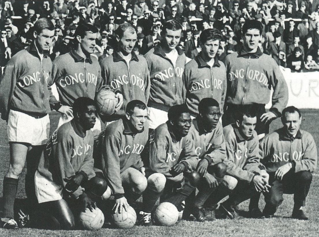 From the bottom right to the left: Pierre Mwana Kasongo , Lambert, Bula - père du musicien Blaise Bula - Mayama, Giberto Della Brida, Breackman (soigneur)